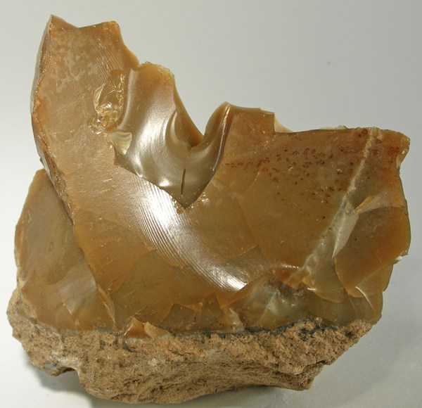 Opal Locality: Oita prefecture, Kyushu Region, Japan (Locality at ) Size: 6.9 x 6.0 x 2.8 cm. An old-time, very rare, beautiful, two-sided specimen of lustrous, brown, semi-precious opal from Japan. The old label says Bungo. Bungo Province is an obsolete political division sometimes seen on old labels and is actually in Oita Prefecture, Kyushu Island. Opal is extremely uncommon from this area. From the collection of Dr. Stillwell (Stillwellite), circa mid-1900s.